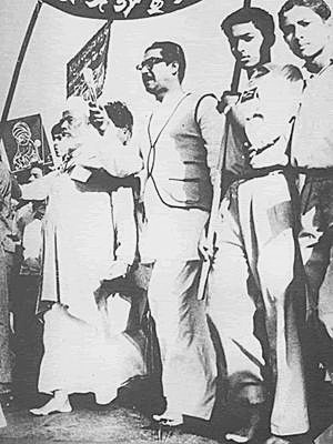 Rally on 21.02.1954 by Moulana Abdul Hamid Khan Bhashani and Sheikh Mujibur Rahman marching barefoot to pay their tributes.On Language Movement Day of 1953, two of the greatest leaders of the history of Bangladesh, Sheikh Mujibur Rahman (3rd from right) and Maulana Abdul Hamid Khan Bhashani (4th from right) participated in the morning procession (known as Probhat Ferry) to protest the killing of students on the same date the previous year.